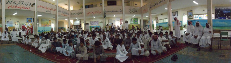 صورة بانورامية للمدرسة من الداخل